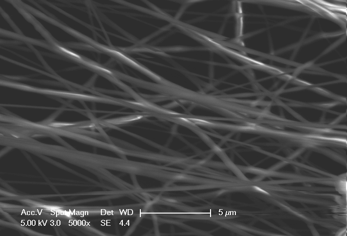 Electrospun polycaprolactone nanofibers. Image taken with the ESEM in MIT's EM lab.